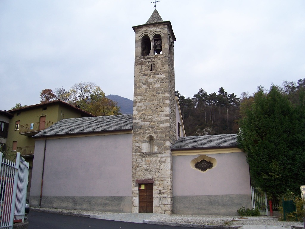 Church of St Mary at the Bridge. Malegno, Val Camonica